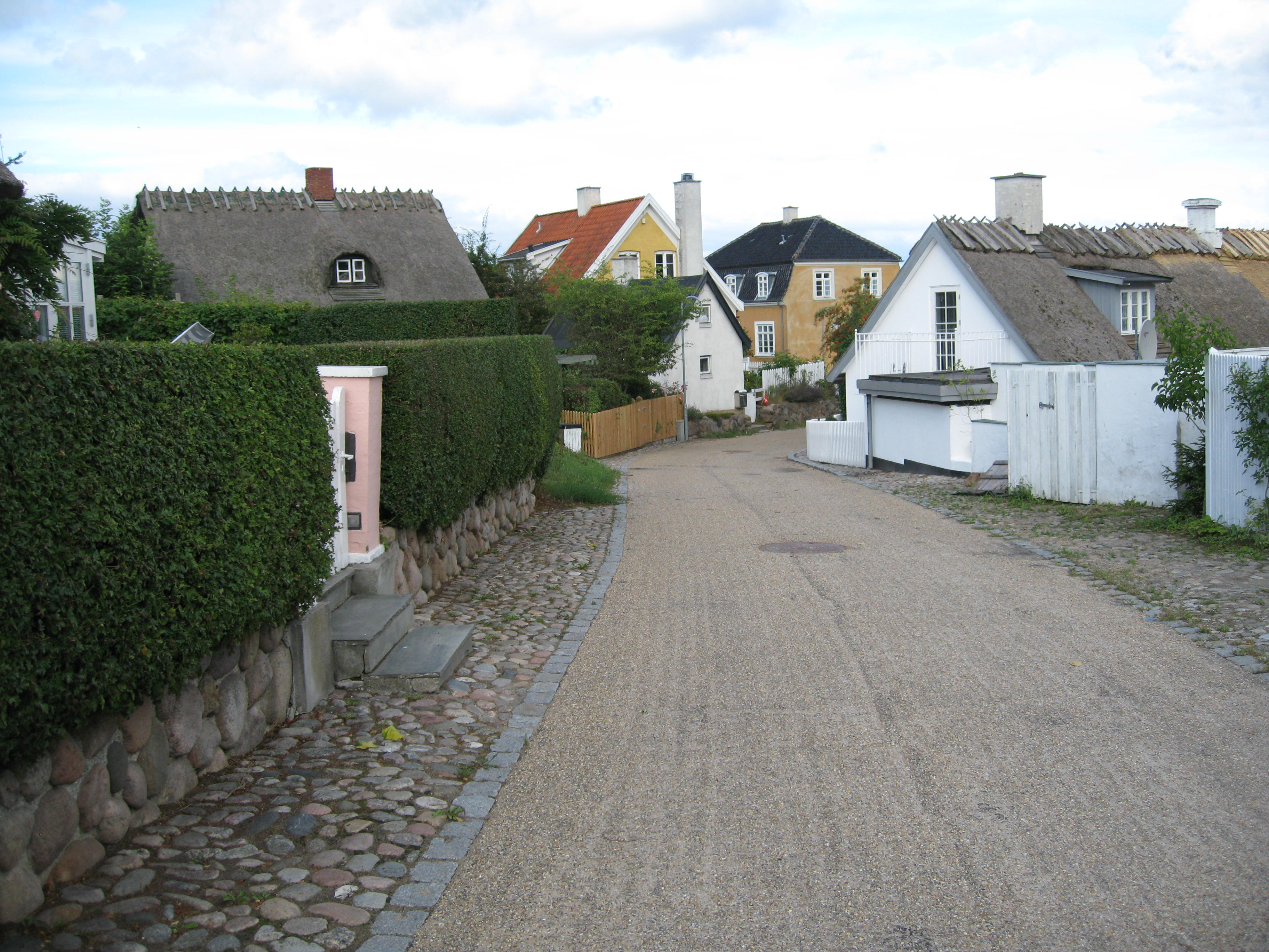 View of Sletten, a village near Humlebæk in Zealand, Denmark.